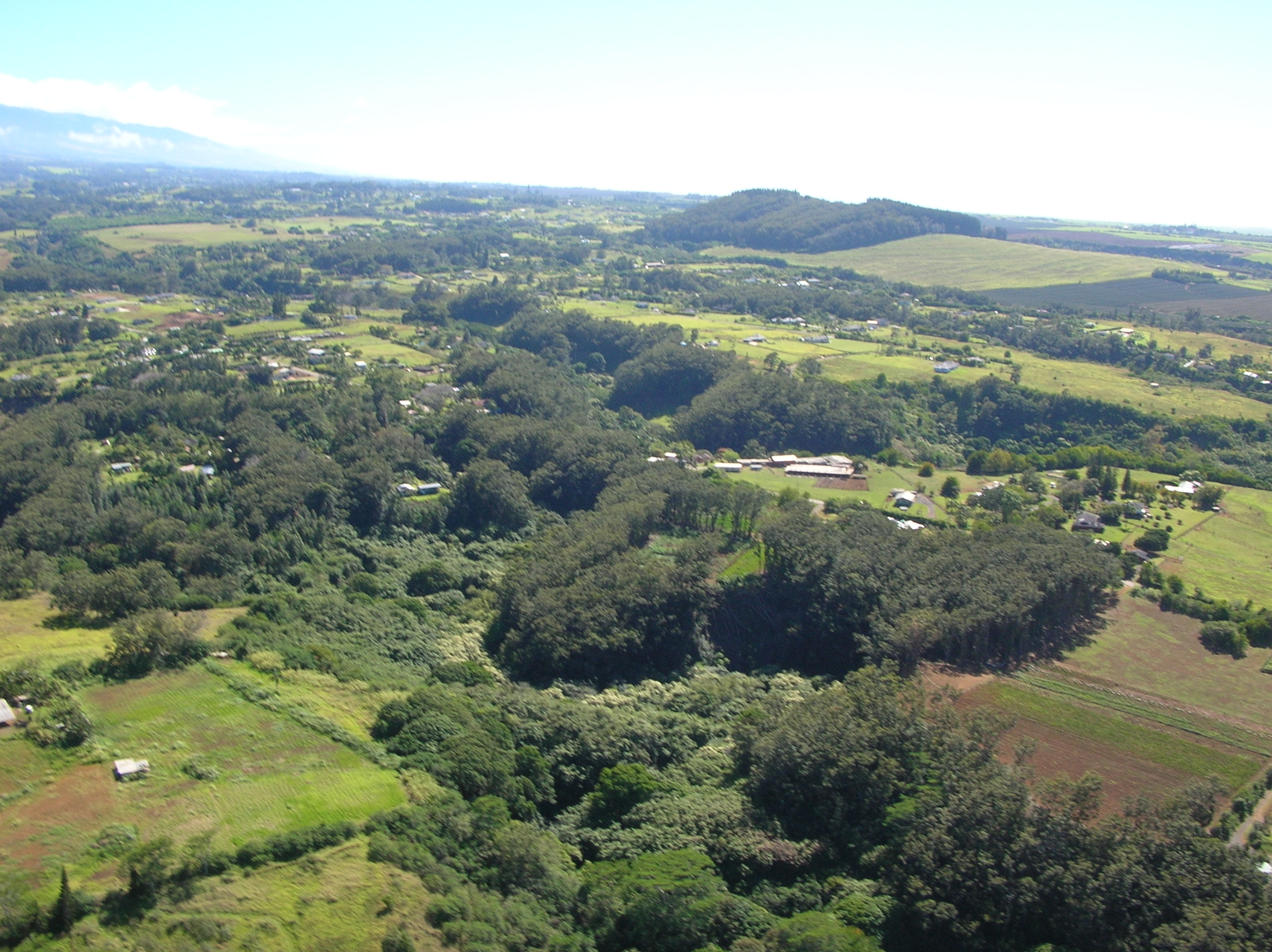 Flueggea virosa (habitat). Location: Maui, Haiku